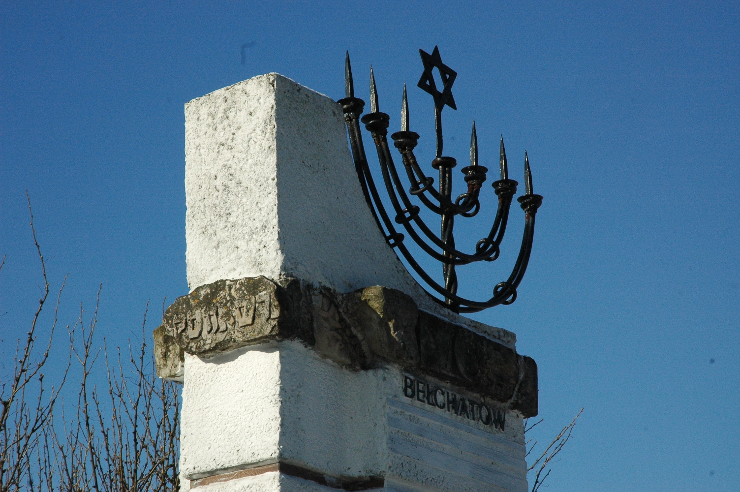 Monument commemorating Jews from Bełchatów, murdered in Kulmhof - detail.